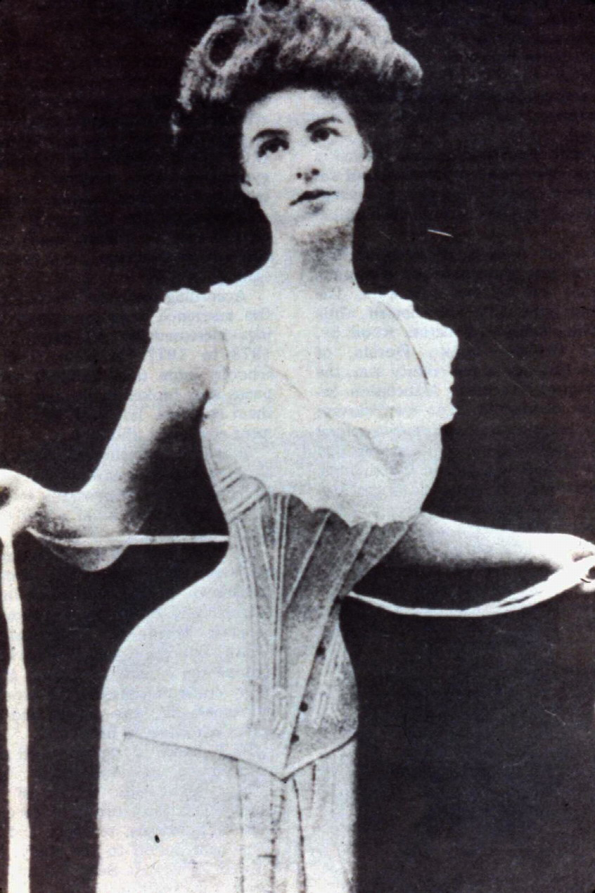 Straight front corset (c. 1905).